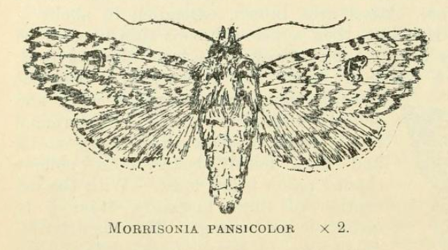 Morrisonia pansicolor by George Howes from his article New Species of Lepidoptera, with notes on larvae and pupae of some New Zealand Butterflies, Article XXI vol. 44 pp 203 - 208 of the Transactions and Proceedings of the New Zealand Institute.